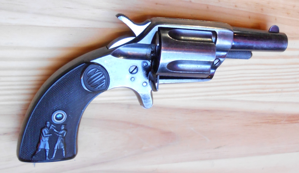 Colt New Police